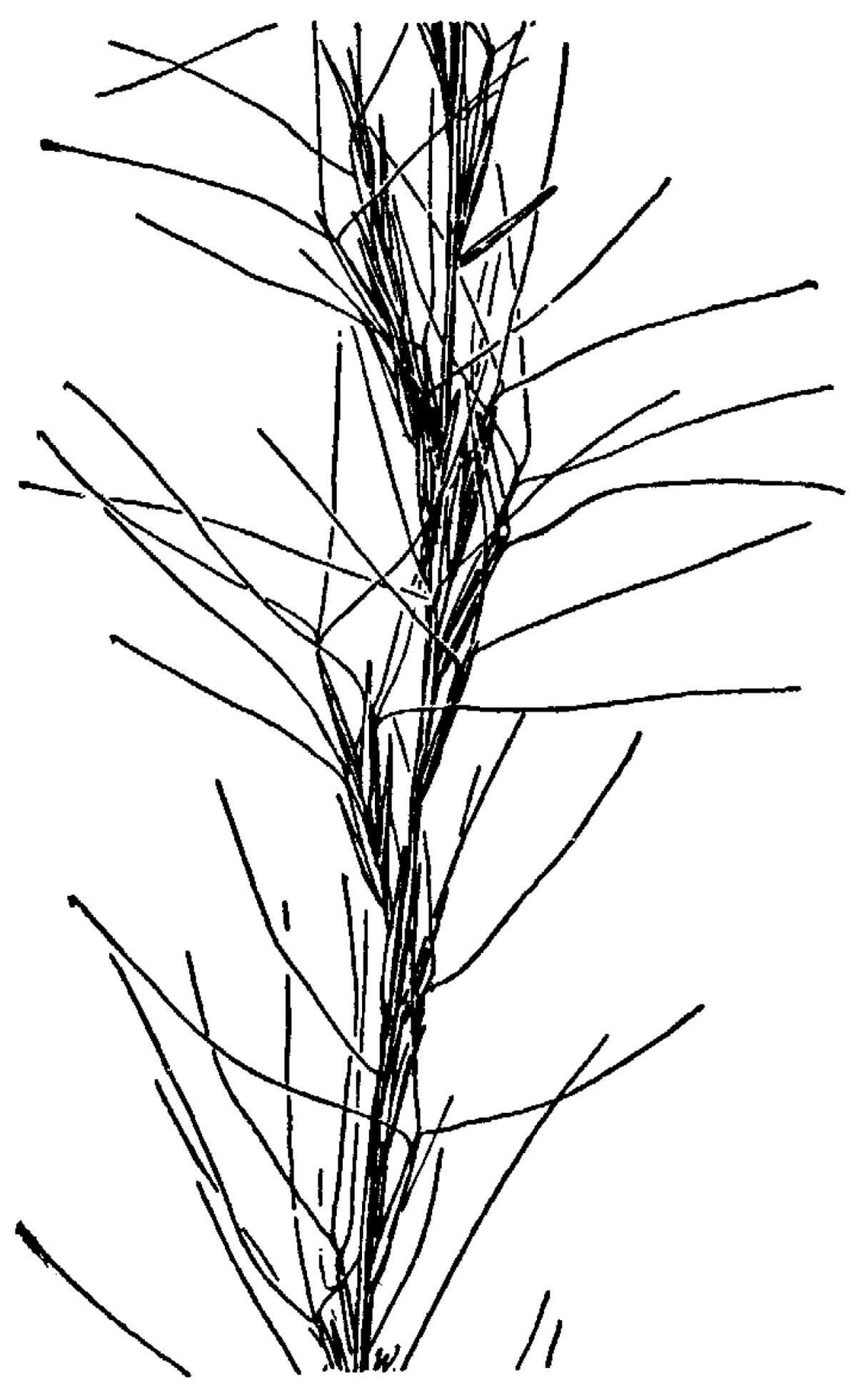 Aristida longespica Poir. var. geniculata (Raf.) Fernald - slimspike threeawn